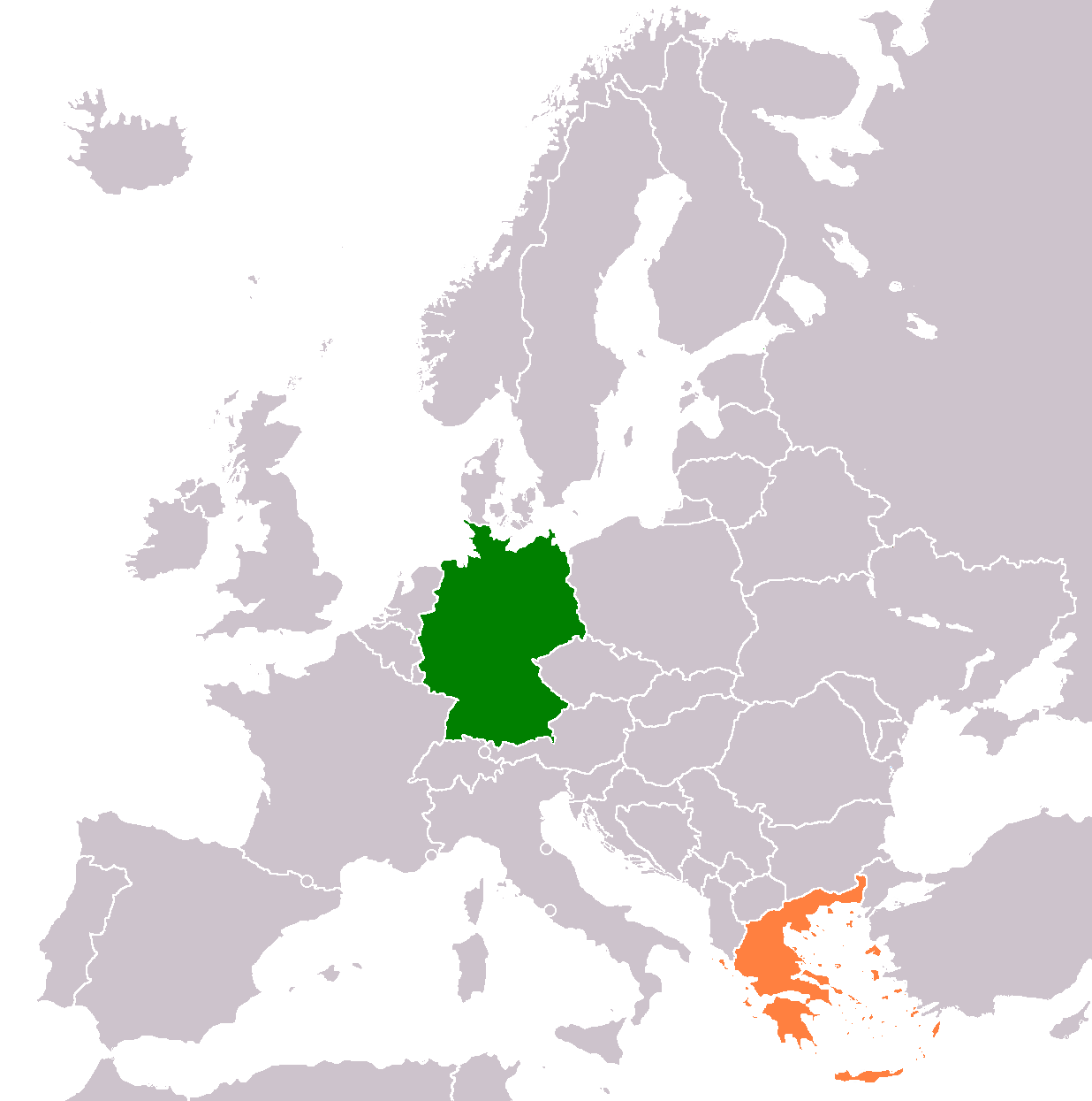 Germany-Greece locator map.